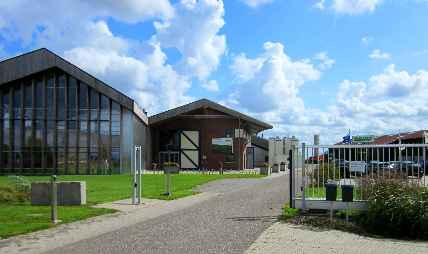 Front gate of the Dairy Campus in Leeuwarden/Ljouwert, part of Wageningen University & Research.